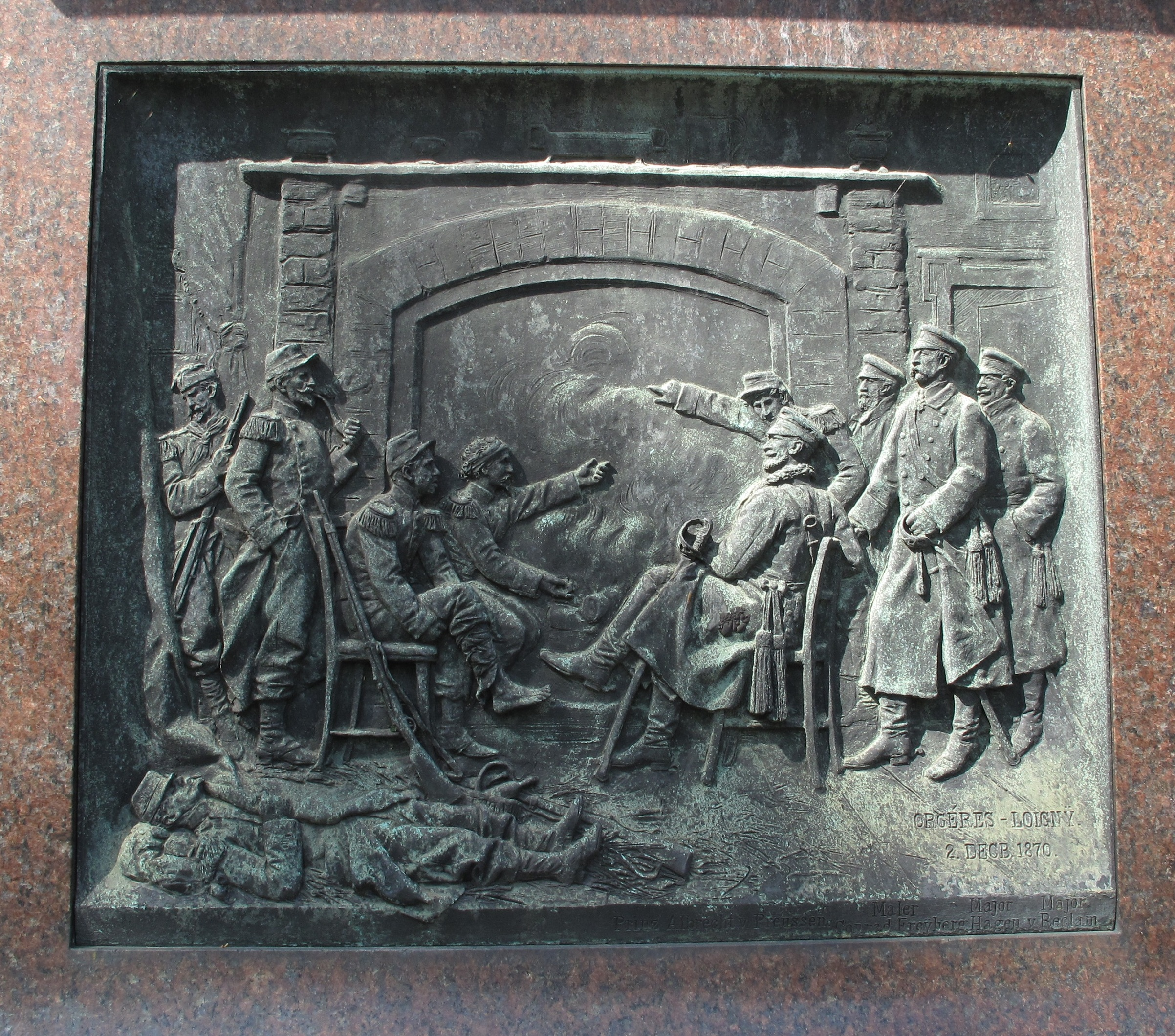 Relief showing a scene of Battle of Loigny-Poupry (here Dec. 2, 1870) on the Prinz-Albrecht-von-Preußen-Denkmal, a monument commemorating to Prince Albert of Prussia (1809–1872). The monument shows Prince Albert in 1870 as General of the Cavalry in the Franco-Prussian War. The pedestal-reliefs depict scenes from the Battle of Sedan and the Battle of Loigny-Poupry.The monument was created in 1901 by the german sculptors Eugen Boermel and Conrad Freyberg. It is located at the northern end of the Schloßstraße on the corner to the Spandauer Damm in Berlin-Charlottenburg.